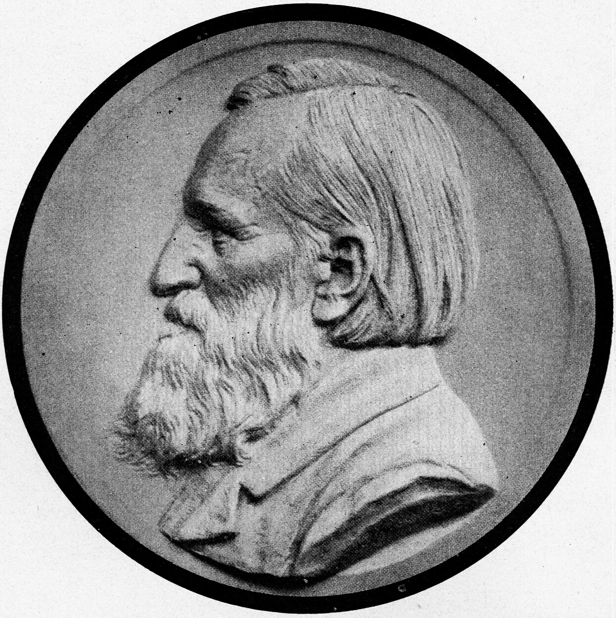 Rudolf Hildebrand (1824—1894), German Philologist. Medaillon by Carl Seffner